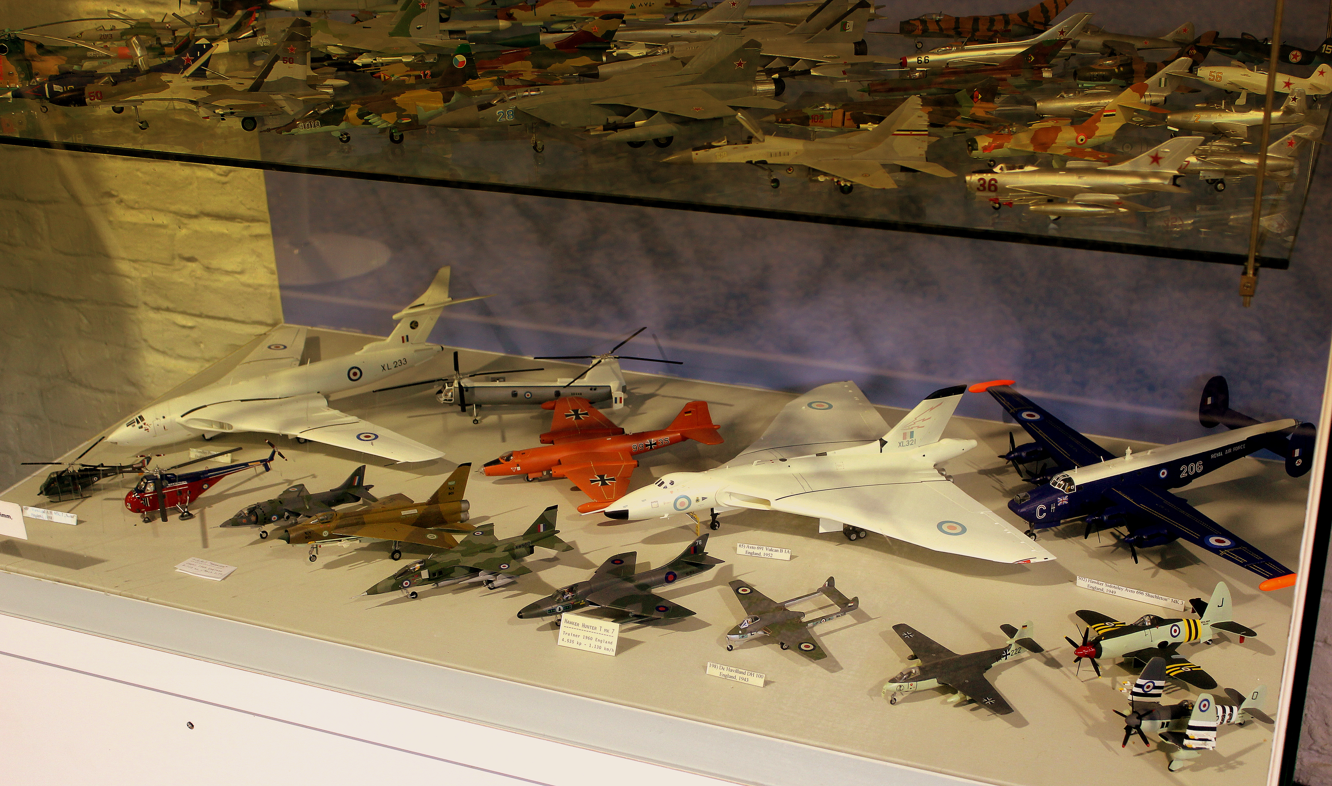 BRITISH MILITARY AIRCRAFT MODEL COLLECTION DISPLAY IN THE CONTROL TOWER BUILDINGS OF RAF GATOW HOME OF THE LUFTWAFFEN MUSEUM BERLIN JUNE 2013